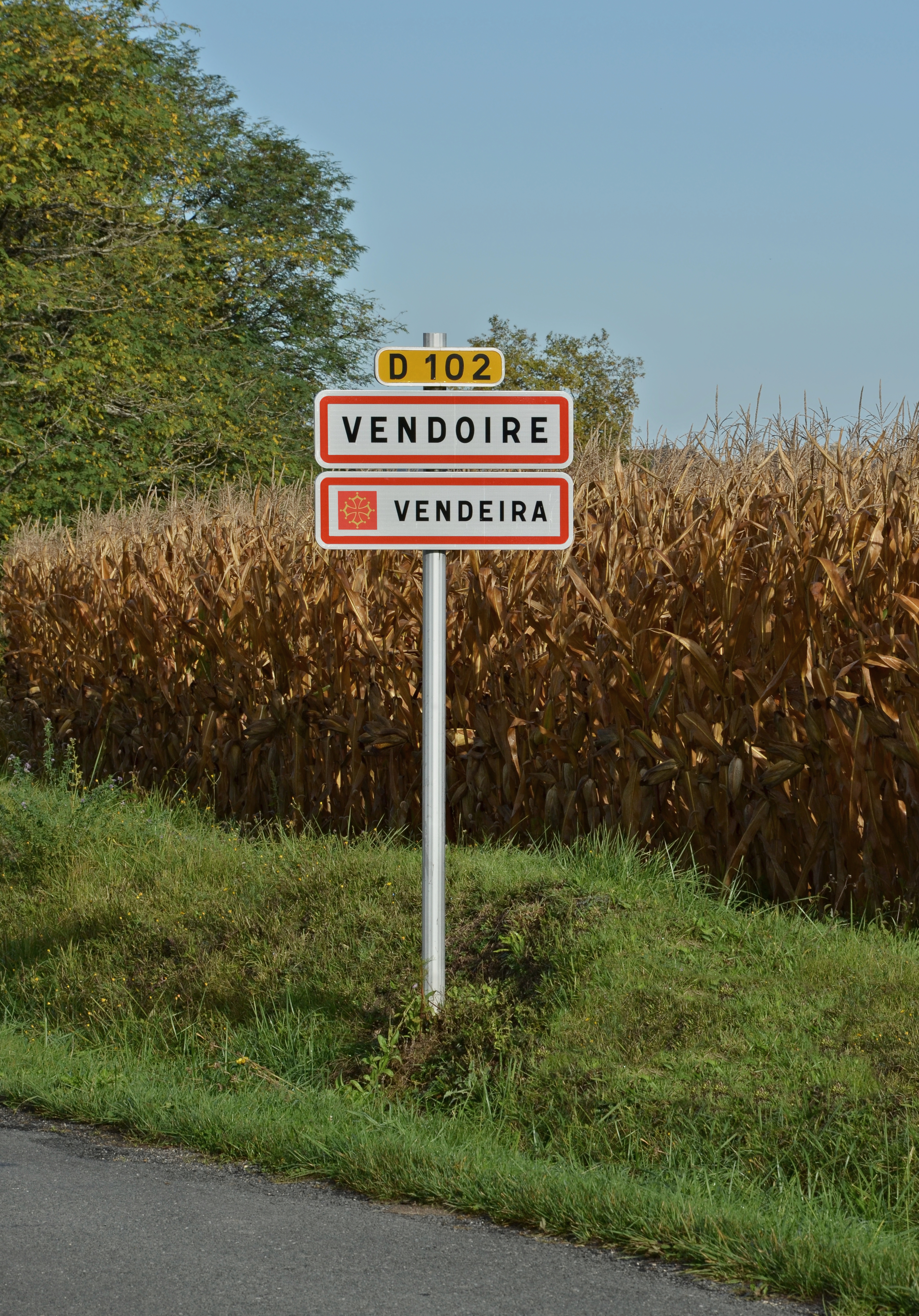 French and Occitan entry sign on road 102, Vendoire, Dordogne, France.